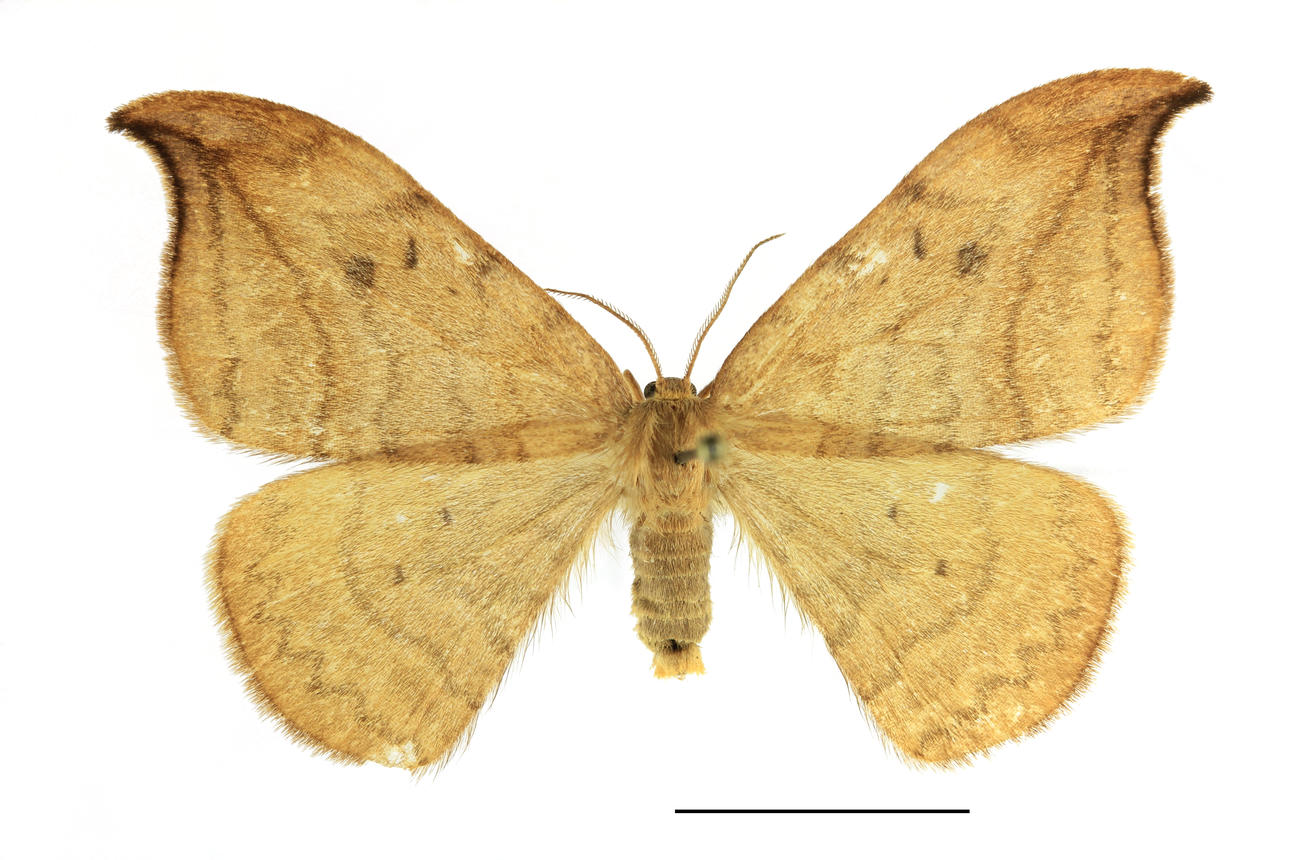 Drepana curvatula, insect collections SLU, Uppsala